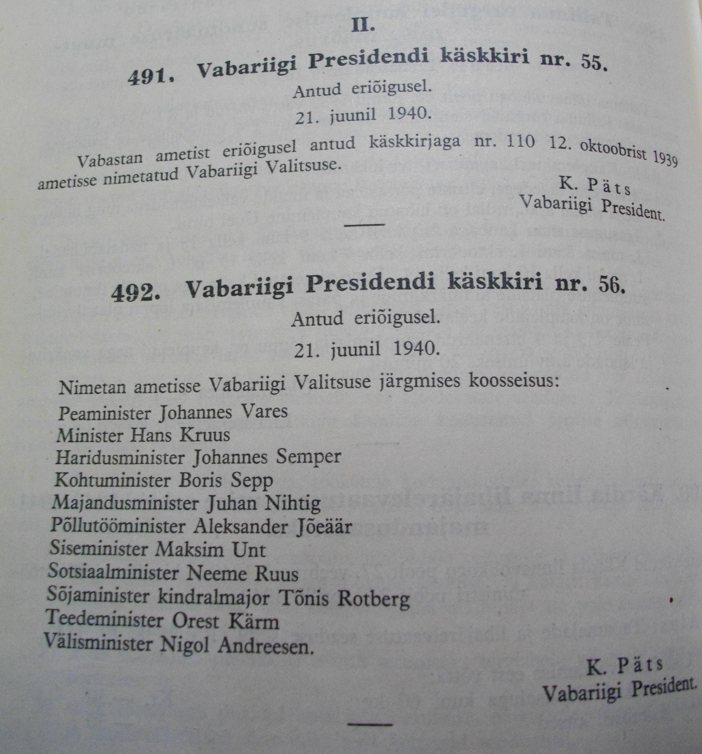 Scan from Riigi Teataja